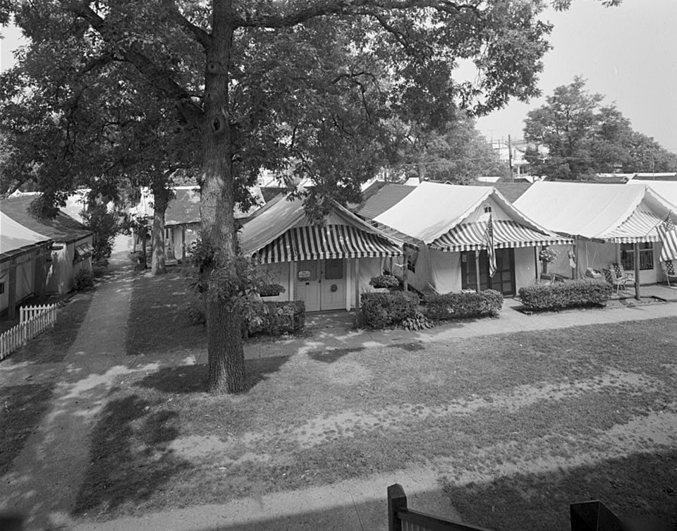 TENT CITY AND NORTHEAST CORNER OF GREAT AUDITORIUM LOOKING WEST - Town of Ocean Grove, East terminus of State Route 33, south of Asbury Park, Ocean Grove, Monmouth County, NJ.